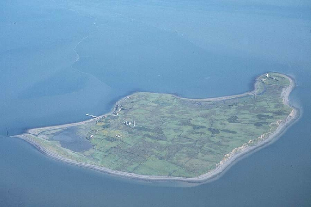 Scattery Island from the air This tiny island in the River Shannon is the birthplace of St Aidan, who became a monk on Iona, and subsequently founder of the monastery on Holy Island, Northumberland.